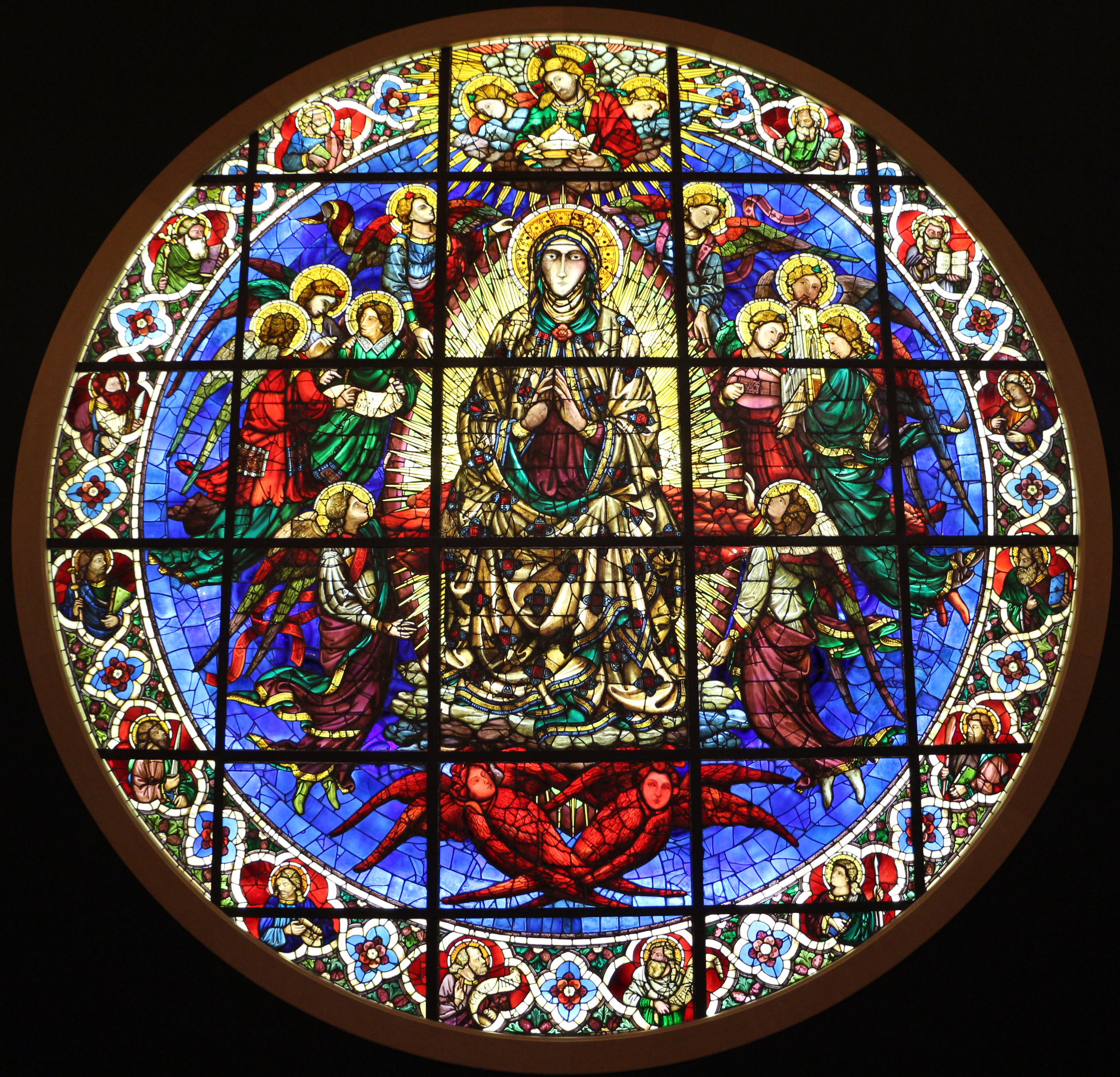 Stained glass window with the Assumption of the Virgin drawn by Lorenzo Ghiberti